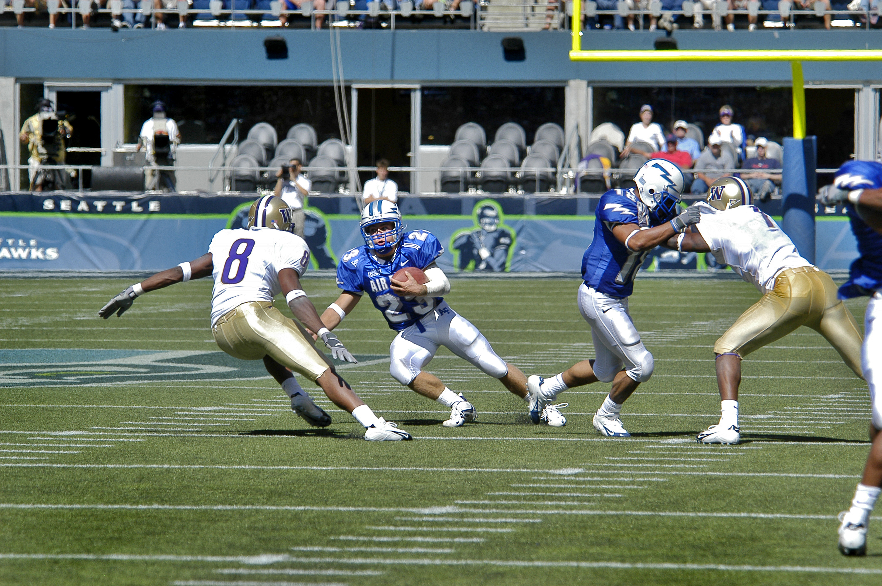 Air Force Academy Falcon halfback Chad Hall eyes University of Washington free safety Dashon Goldson in the open field as Air Force's Justin Handley blocks a defender. The Cadets defeated the Huskies in the season opener for both teams, 20-17